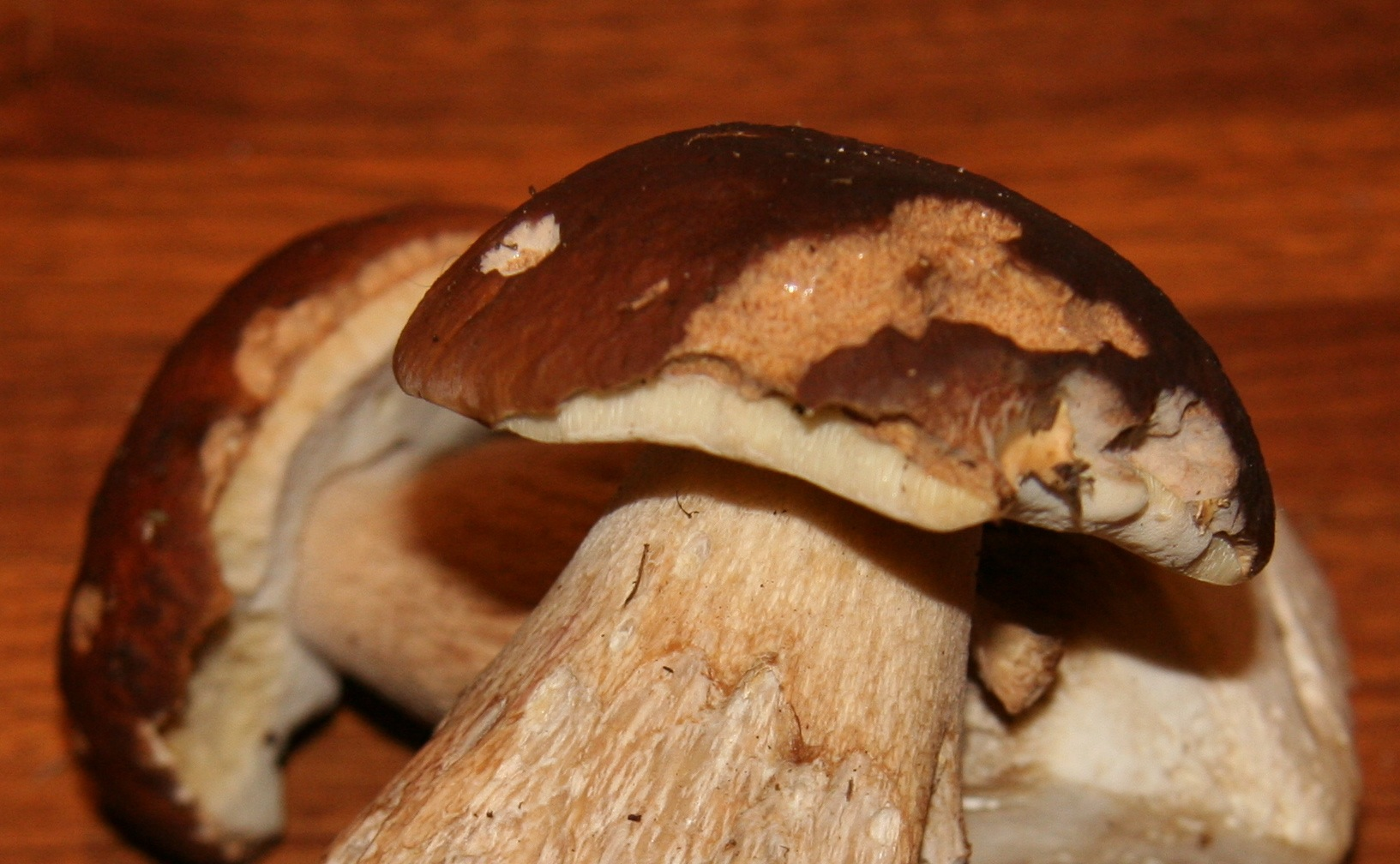 Marks in Boletus edulis indicating, that some animal (probably a snail) has been eating it.